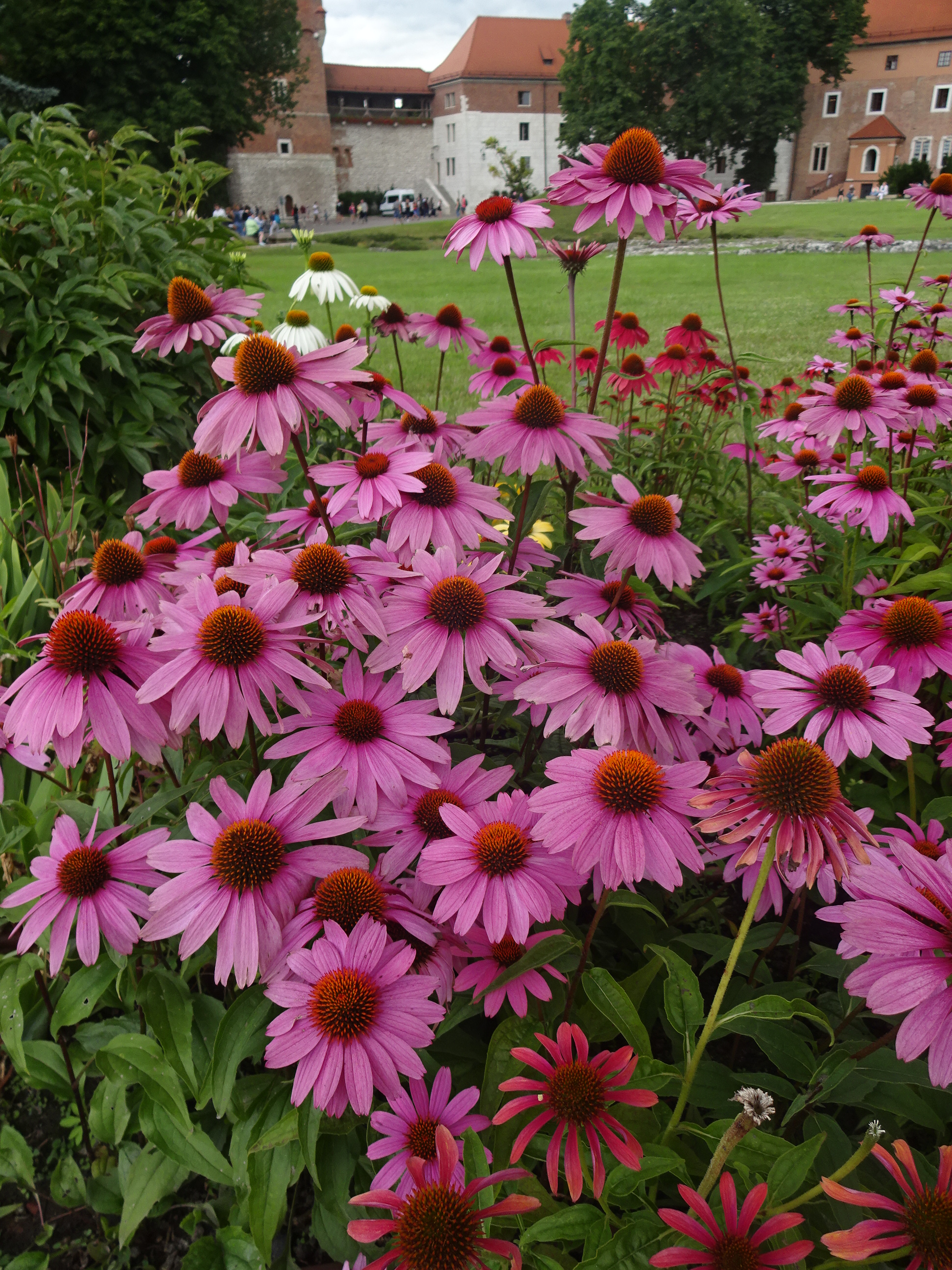 Location: Wawel, Krakow (Poland)